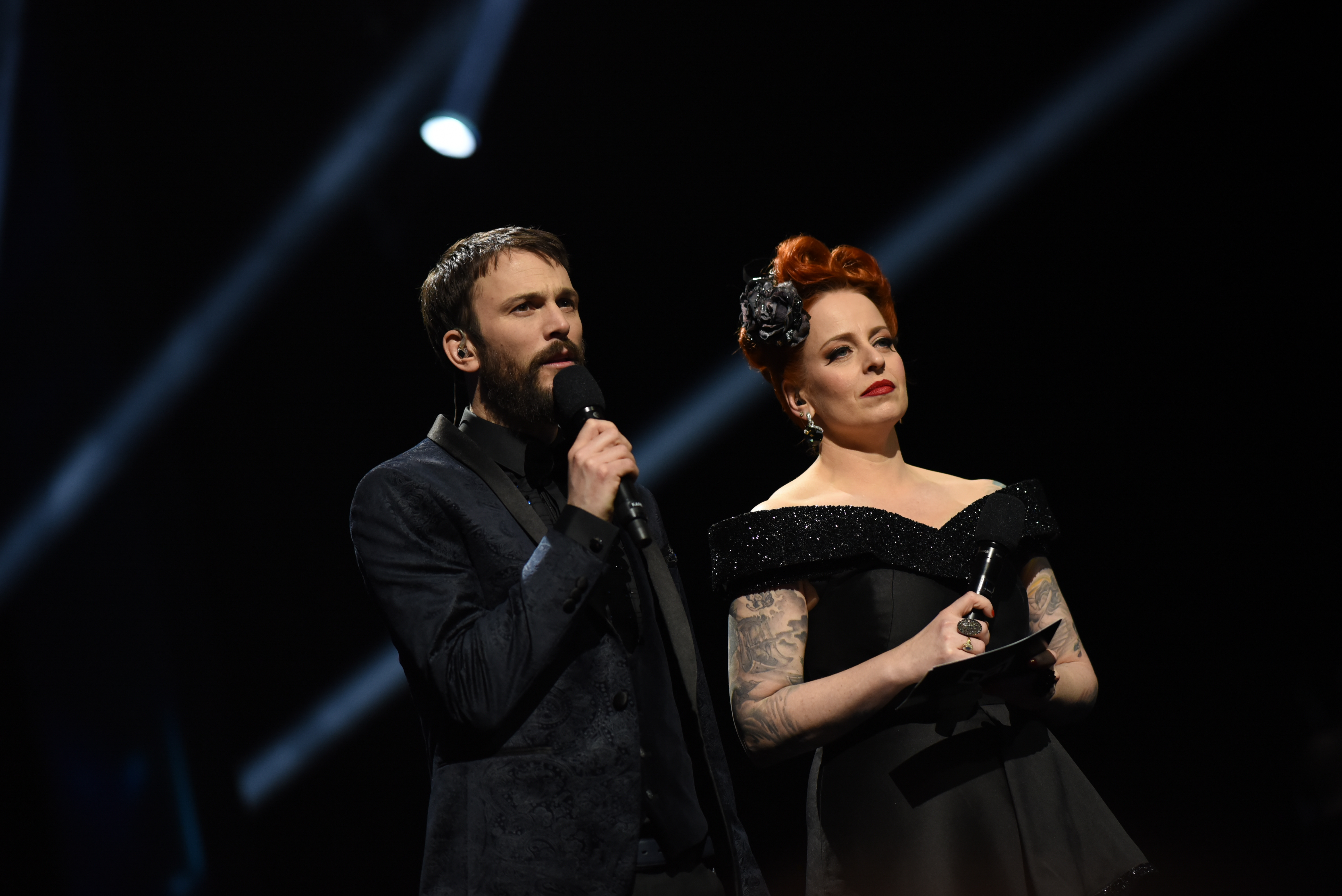 Melodi Grand Prix 2018